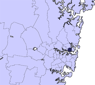 Locator Map North sydney lga.png Based on Image:Ku-ring-gai sydney.png by User:Randwicked.